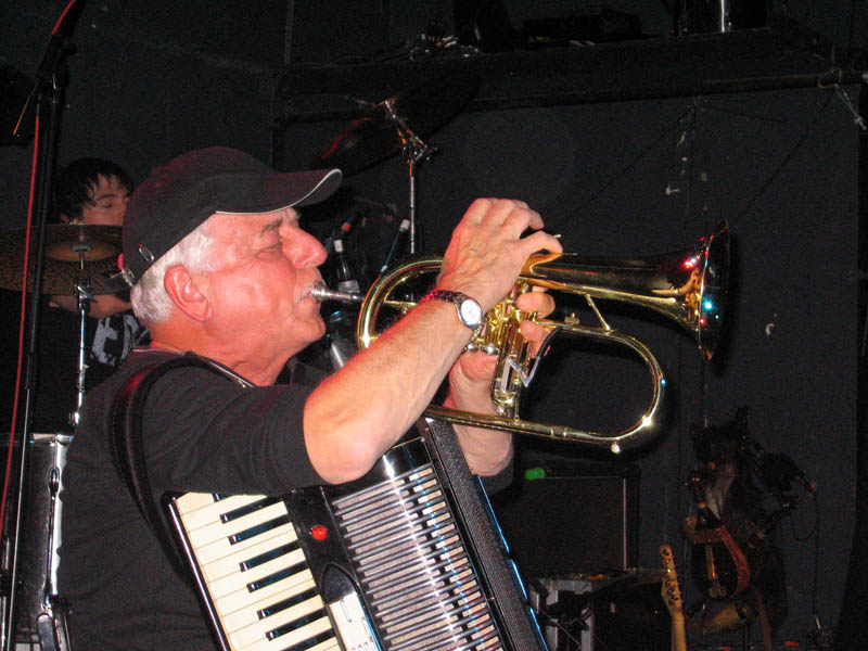 Radek Pobořil, Čechomor